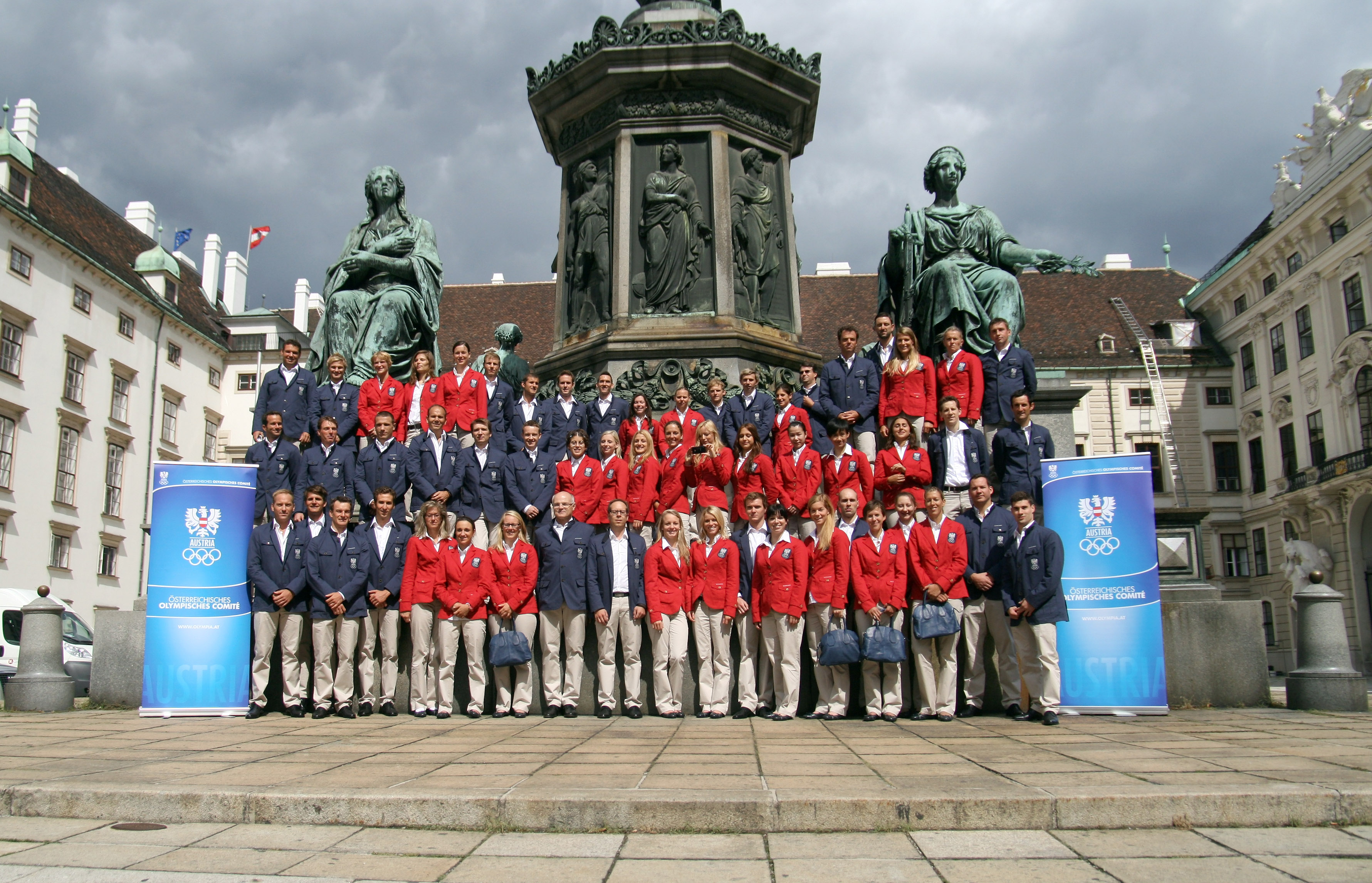 Group picture of the (incomplete) Austrian team for the 2012 Summer Olympics in London at the inner court of Hofburg Palace in Vienna.